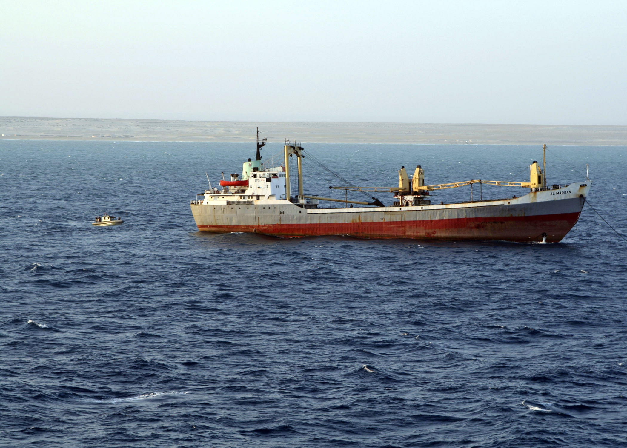 Merchant vessel Al Marjan was released from pirates off the Somali coast Dec. 2. Al Marjan had been under the control of Somalia-based pirates since Oct. 17. The U.S. Navy dock landing ship USS Whidbey Island (LSD 41) was on hand to assist the vessel and its crew following its release. The U.S. Navy has maintained a ship presence off the coast of Somalia since late October, where there have been six pirated vessels off the Somali coast in the last 30 days. The U.S.-led multinational maritime task force responsible for planning counter-piracy operations off the Horn of Africa includes Italy, the Netherlands, and the United Kingdom. Coalition forces conduct Maritime Security Operations under international maritime conventions to ensure security and safety in international waters so that all commercial shipping can operate freely while transiting the region.